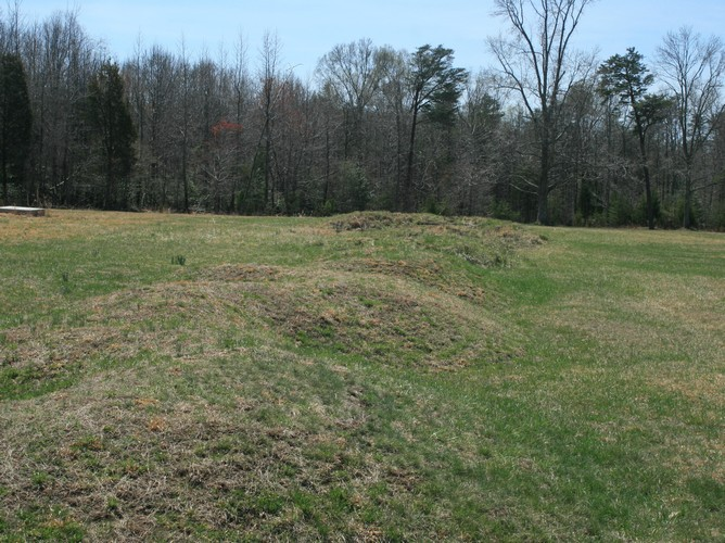 Remains of XII corps trenches at Fairwie